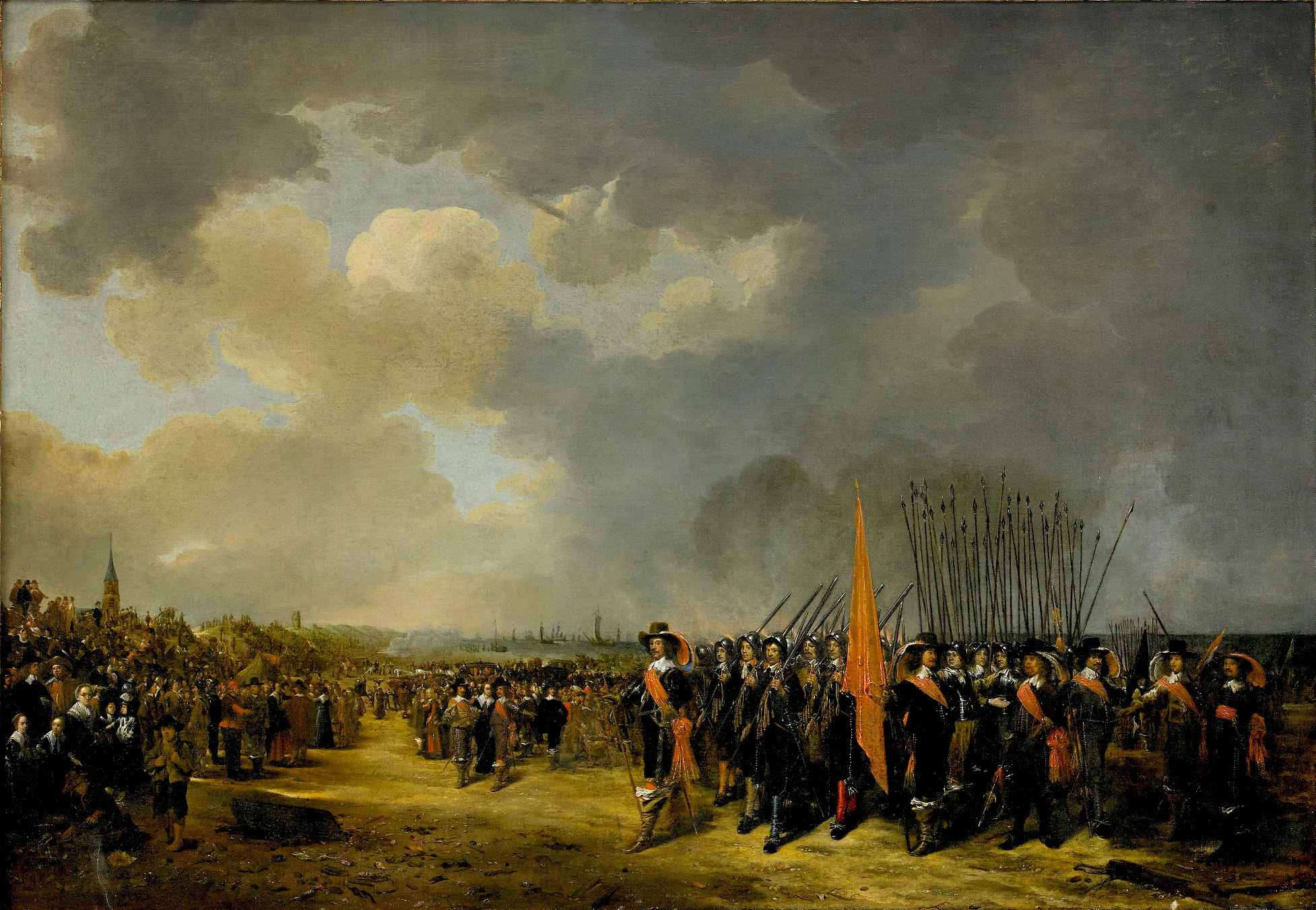 Paulus Lesire, Dordrecht 1611-1658: The departure in 1643 from Scheveningen by the English queen Henrietta Maria. Signed and dated. Oil on canvas laid on panel. 97 x 140 cm. Inscribed on the stone: den Haegh het Hollants hoff weet opeen hooffs te leven De vriendschap die sy kryght die weet sy weer te geven. En schoon sij self wel eer haer koninhgschap verjoiegh Omdat het was te te....en sich te gaanck vroiegh S.........te min een Koninghin te vlyen........een goet gevoel en beter uyt te leyen 't was Koevenhoven die de Schuters voren gingh dit heught men en verget hoe ver men haer verfingh